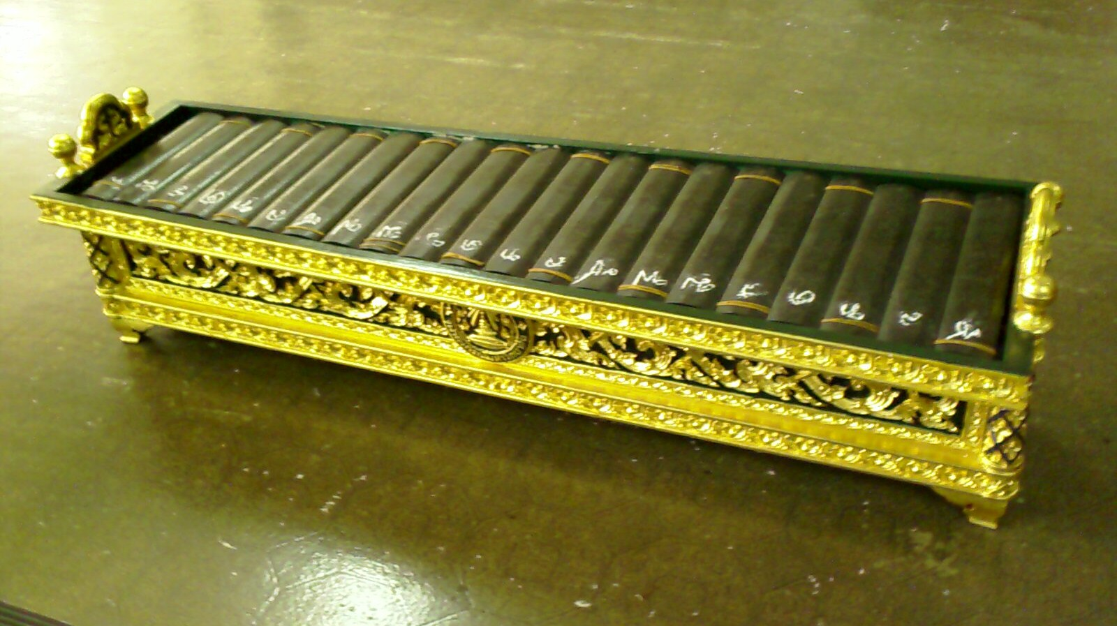 A Ranat ek lek